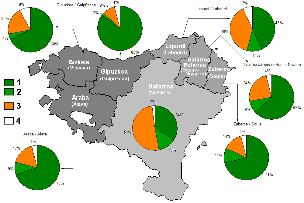 Classification of population according to cultural identity Do you consider yourself Basque? - 1: Yes; - 2: Yes, in some ways; - 3: No; - 4: Don't know / Don't answer